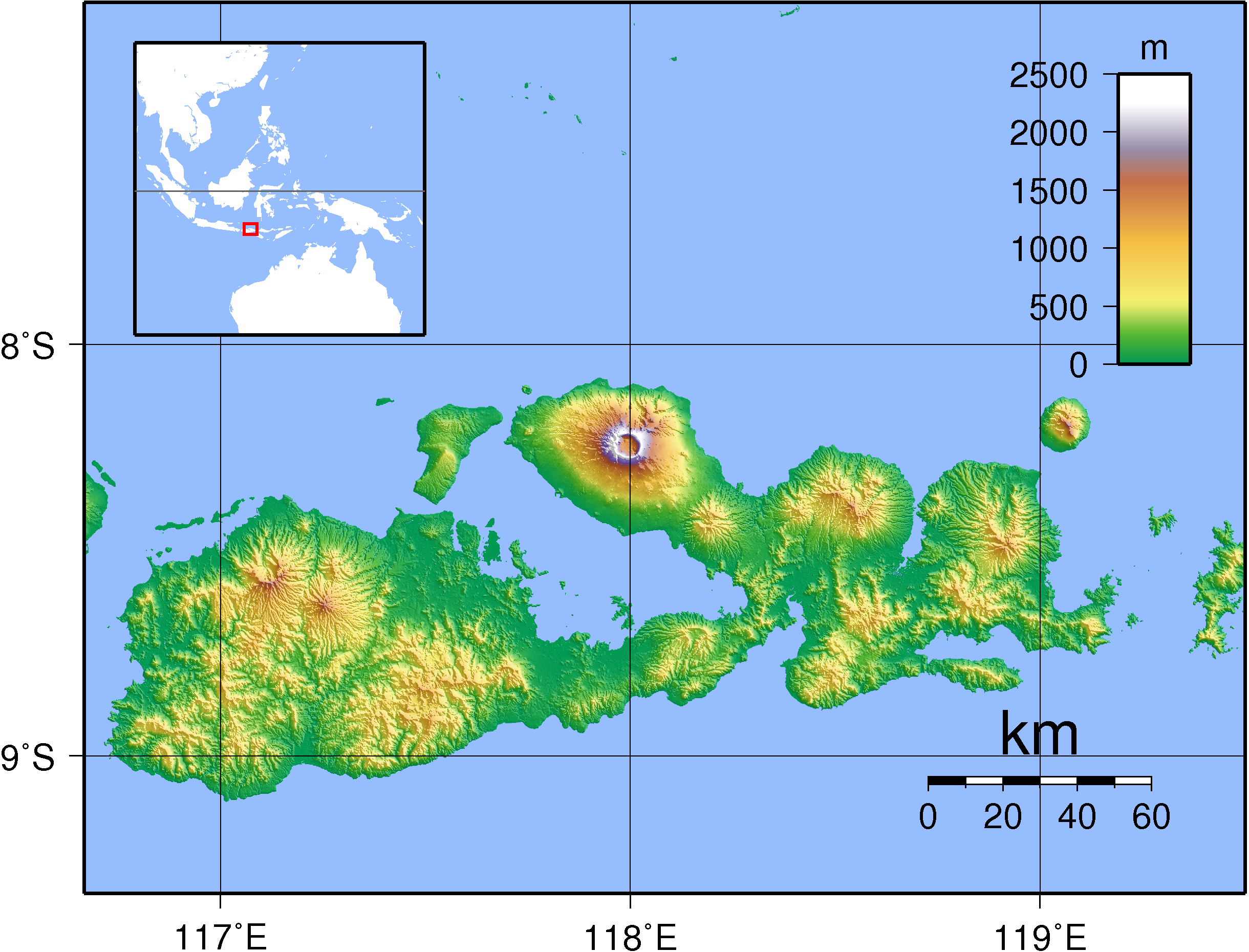 Topographic map of Sumbawa, Indonesia. Created with GMT from SRTM data.